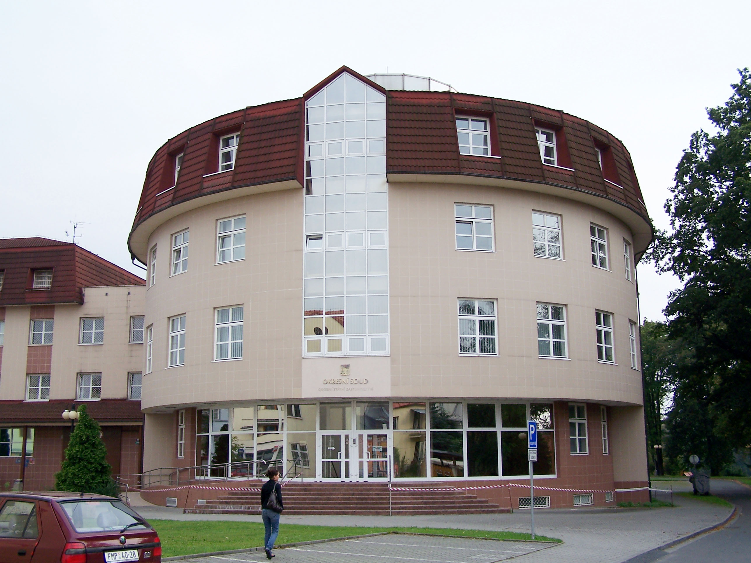 District court in Karviná-Fryštát (Karwina-Frysztat), Czech Republic.